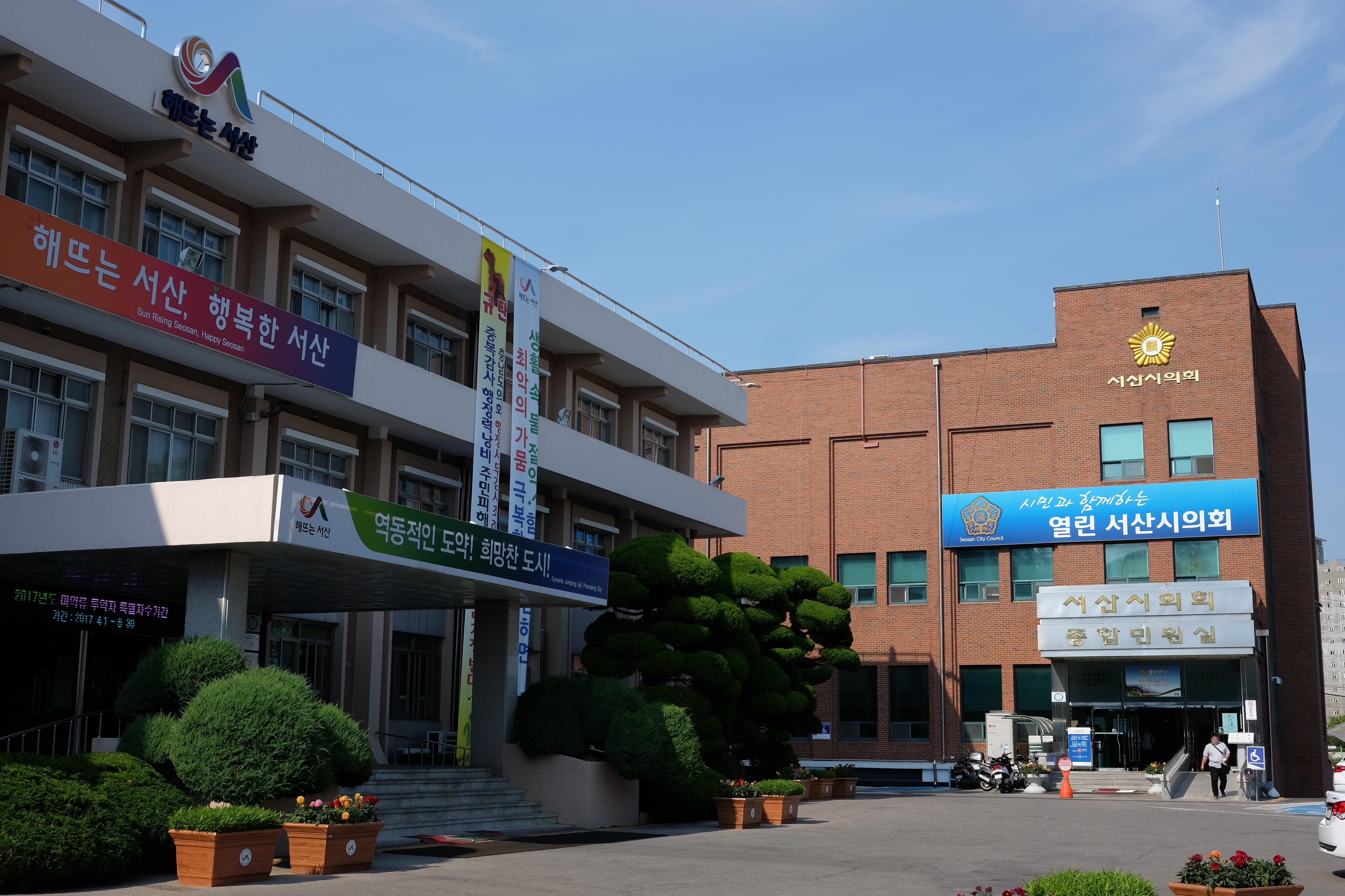 Seosan City Hall and Seosan City Parliament